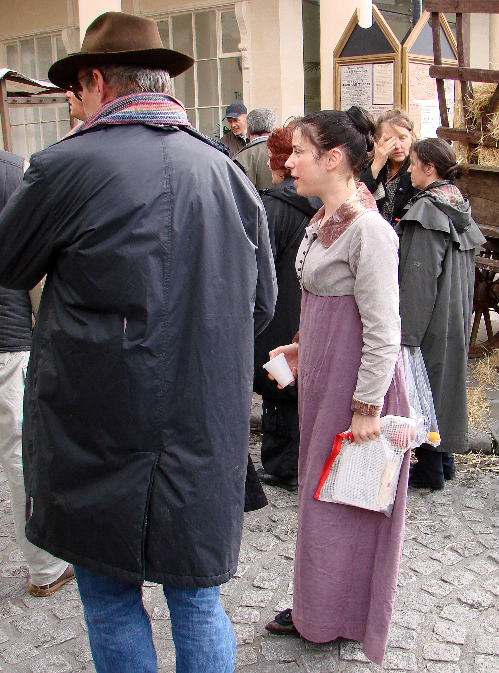 Location shooting for Persuasion (2007) in Bath. Sally Hawkins (Anne) with the Director.